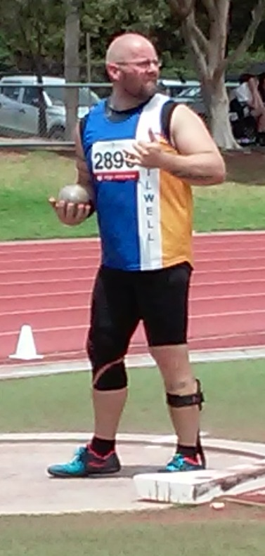 Martin Jackson Athlete 25